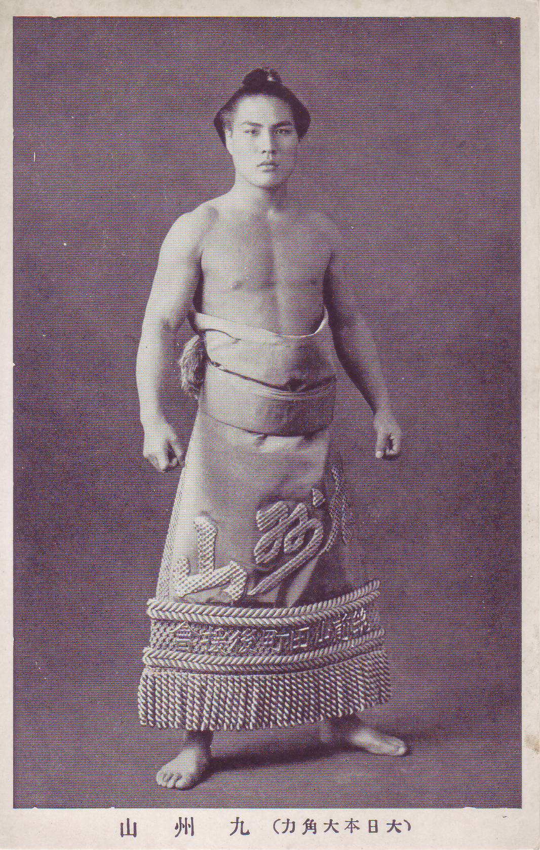 Postcard of Yoshio Kyushuzan (sumo wrestler. Komusubi).